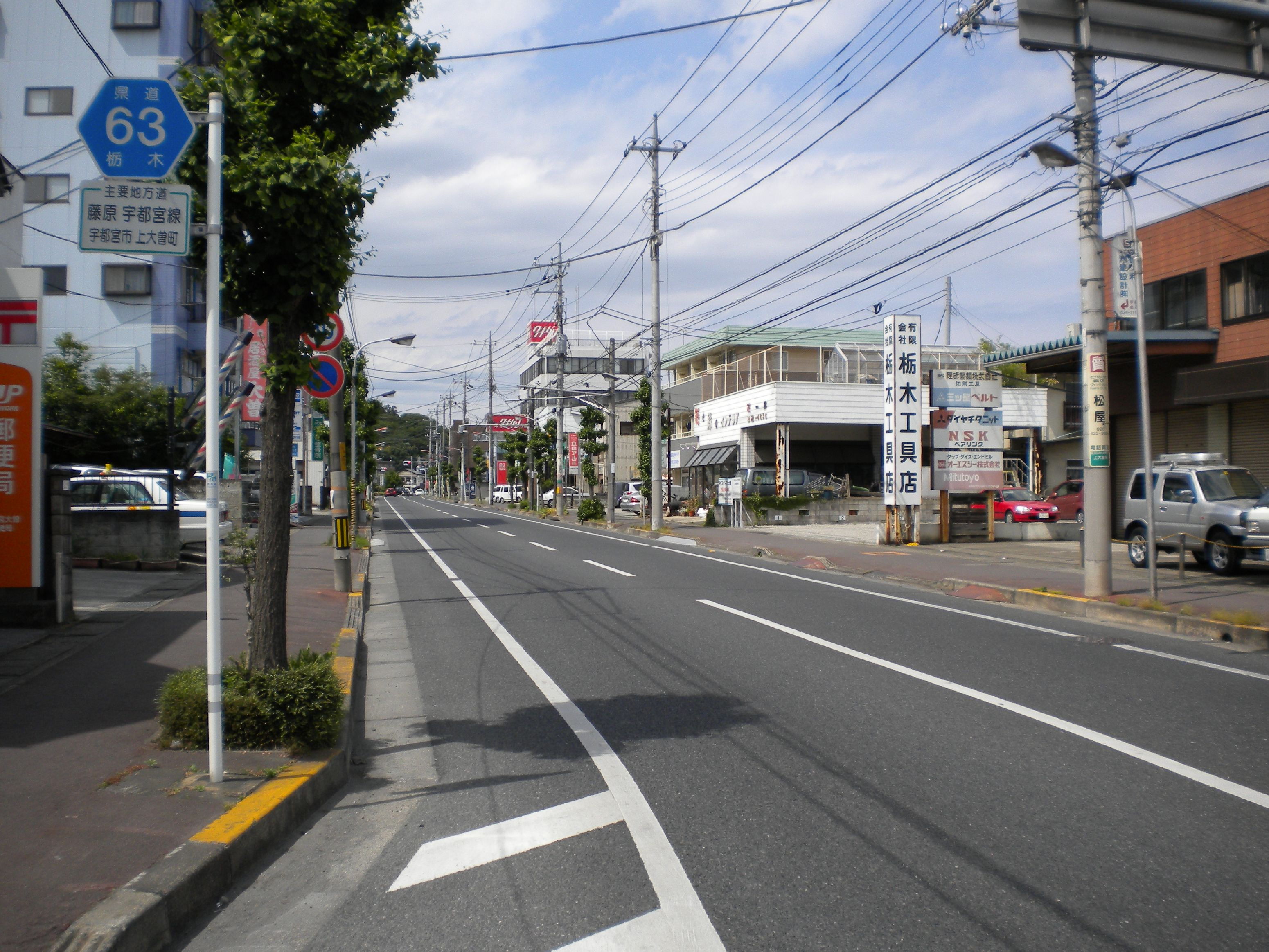 The Tochigi Prefectural Road Route 63 in Kamiozomachi, Utsunomiya City